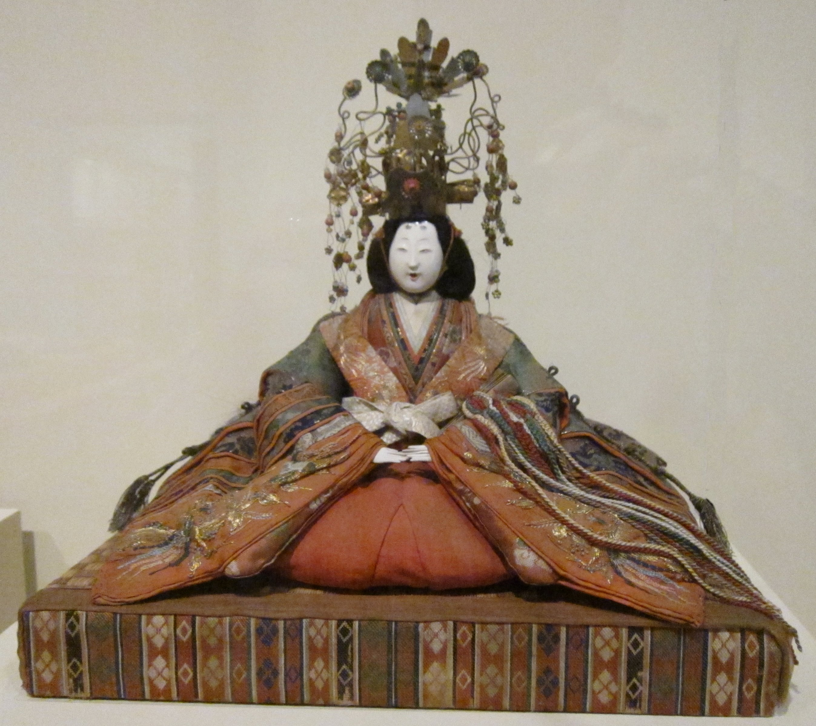 Empress, 19th century, porcelain, paper-mâché, wood, hair, silk, cotton, metal, pigments, Honolulu Museum of Art